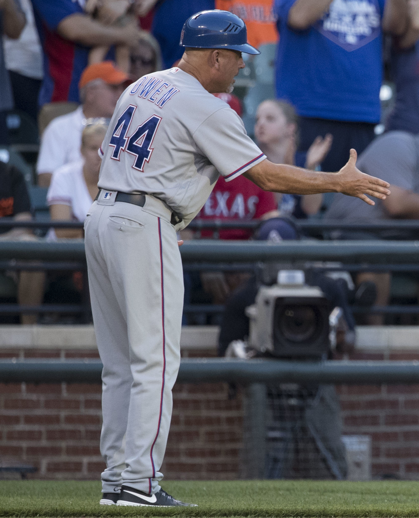 Coach Spike Owen of the Texas Rangers congratulates Jonathan Lucroy during a 2016 game against the Baltimore Orioles at Camden Yards